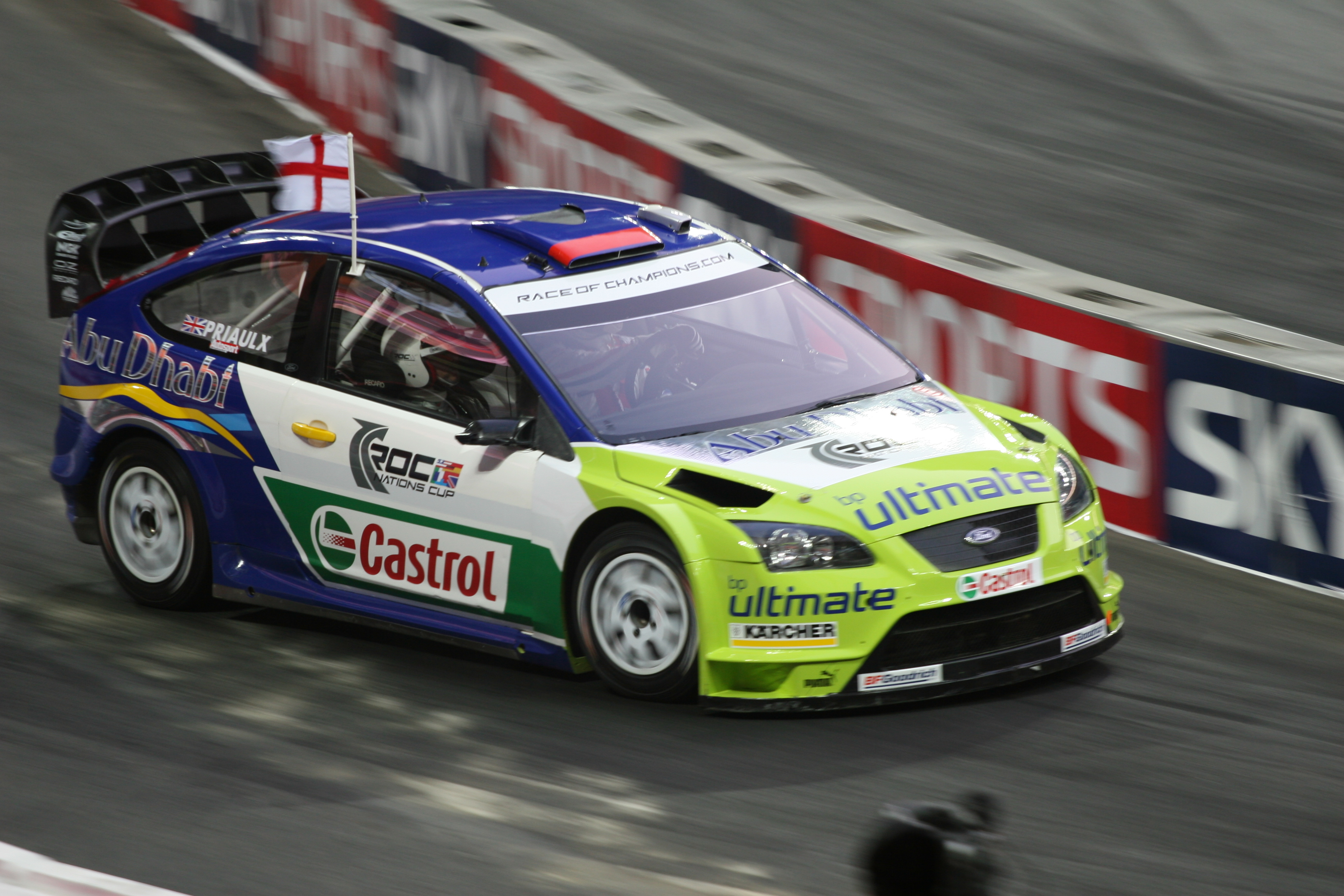 Andy Priaulx driving a Ford Focus RS WRC 07 at the 2007 Race of Champions at Wembley Stadium.